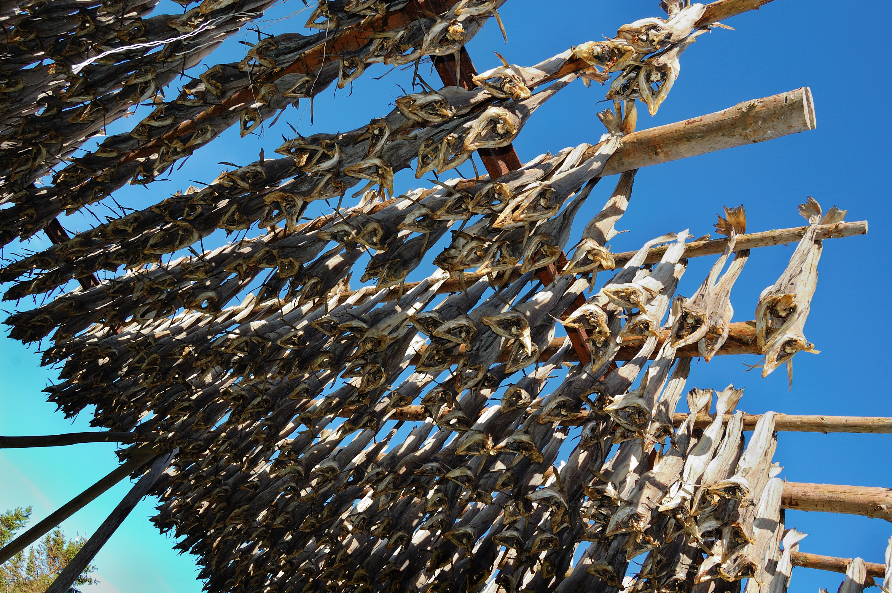 Stockfish drying flakes in Å, Lofoten, Norway.